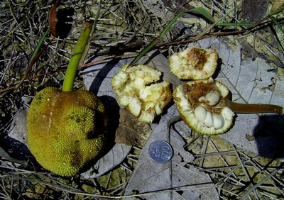 Artocarpus odoratissimus fruit from Kutai Barat, East Kalimantan, Indonesia